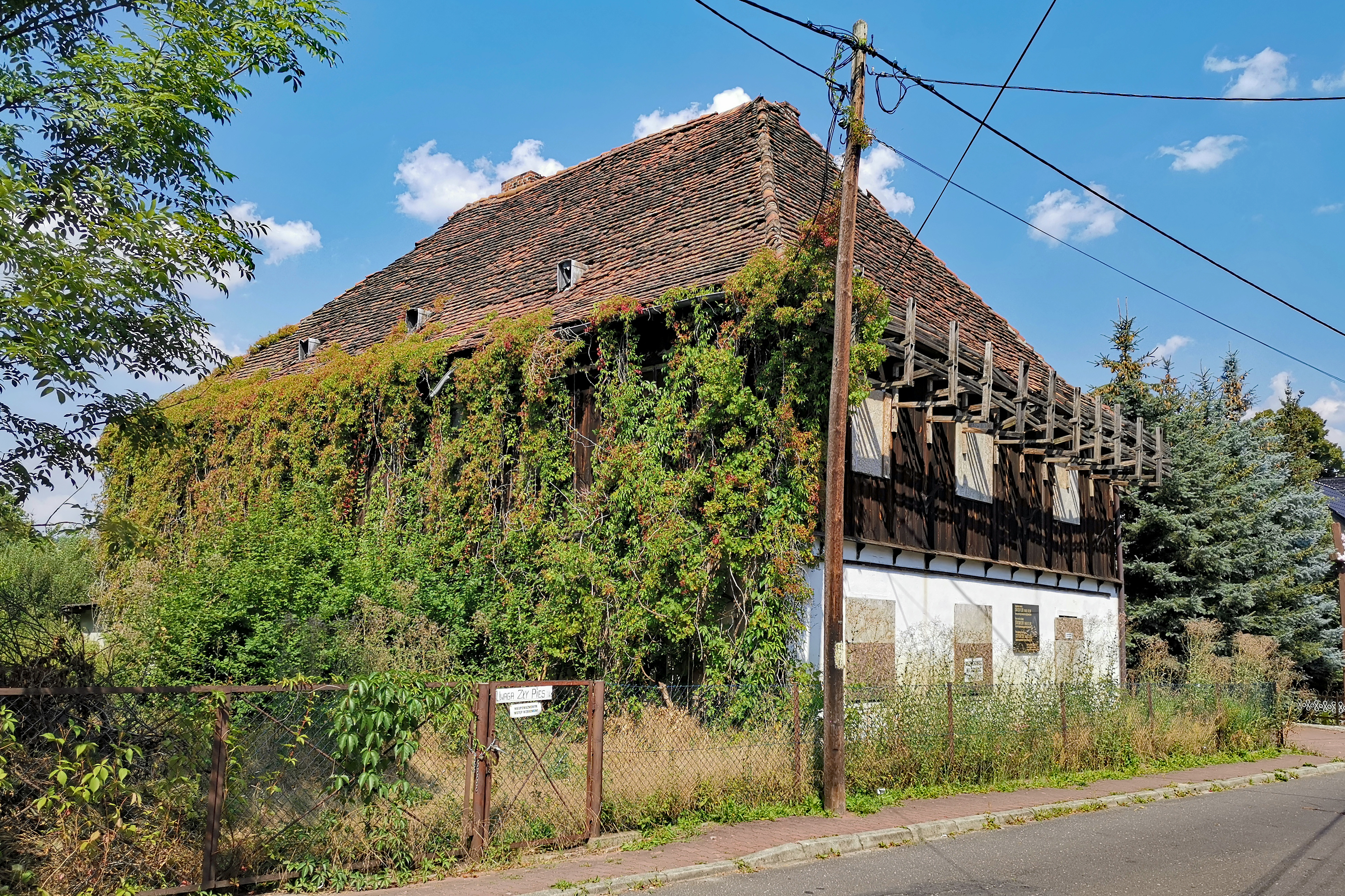 Zarki Wielkie (Poland)